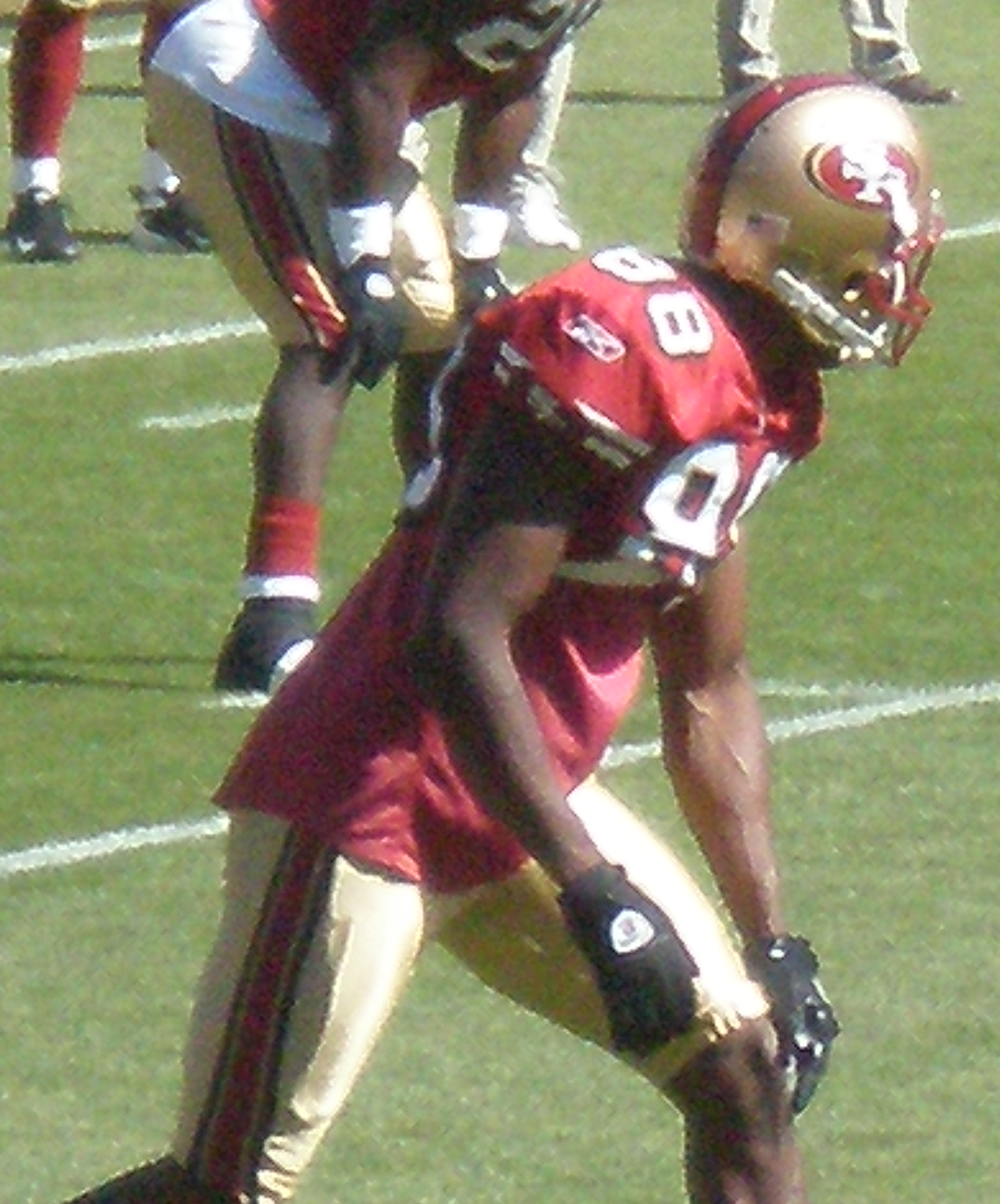 San Francisco 49ers wide receiver Isaac Bruce warming up on Bill Walsh Field at Candlestick Park prior to a regular season game against the Philadelphia Eagles. The Eagles won 40-26.